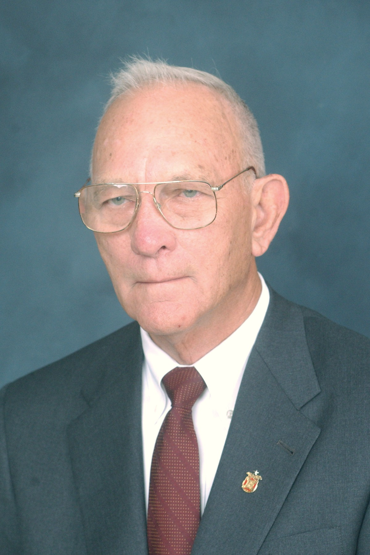 Bill Proctor